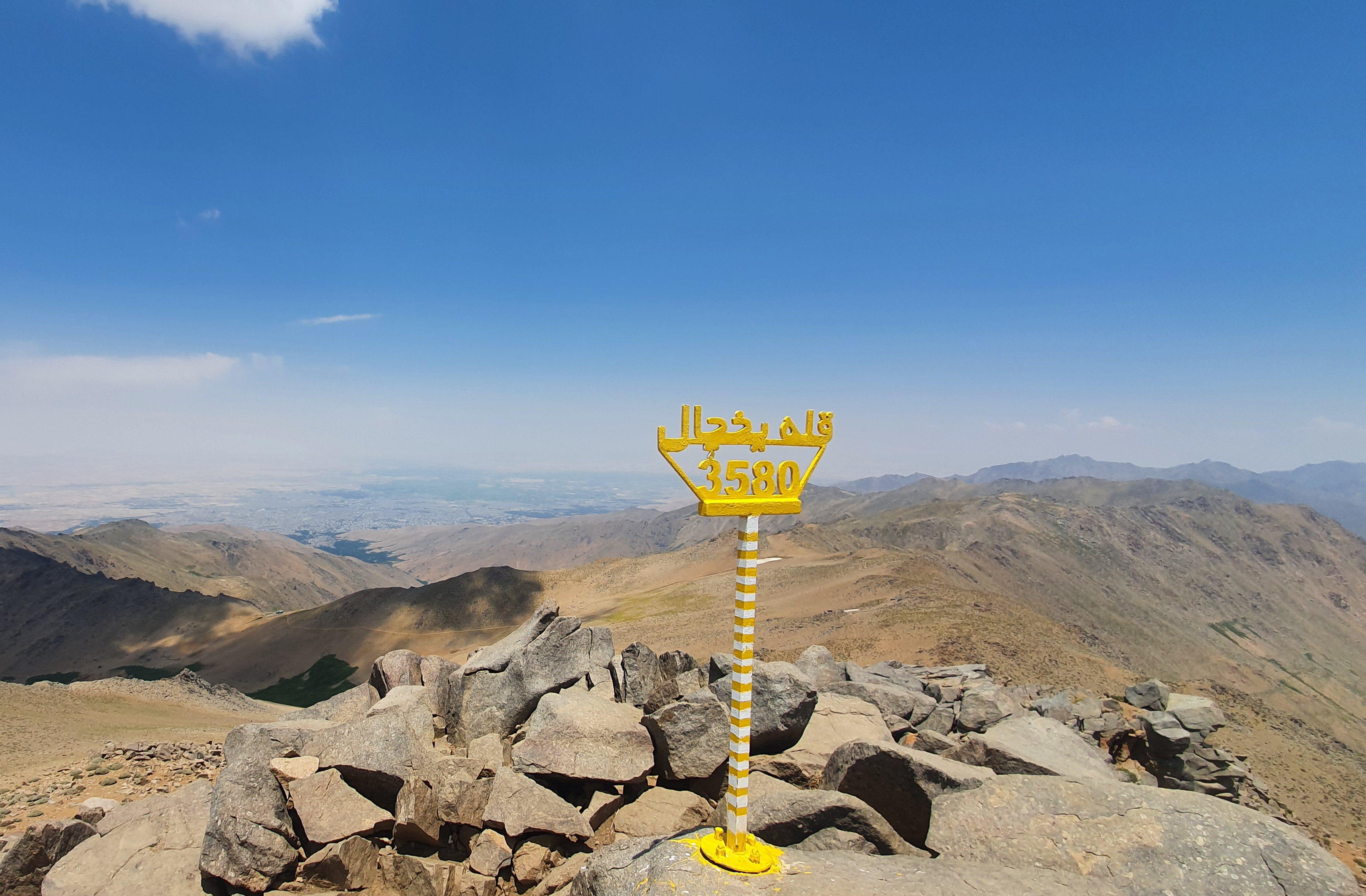 Yakhchal peak is the highest summit of Alvand mountains.